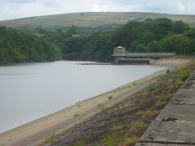 Tittesworth Dam. Looking across the dam at Tittesworth Reservoir near Leek. The reservoir is one of the sources of water for the North Staffordshire area.